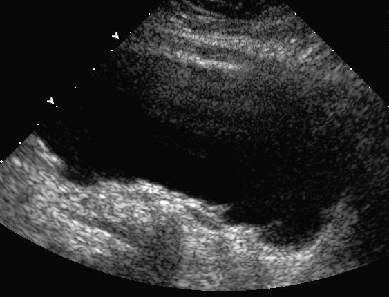 Ultrasound coronal scan through urinary bladder showing trabeculation in neurogenic bladder disease